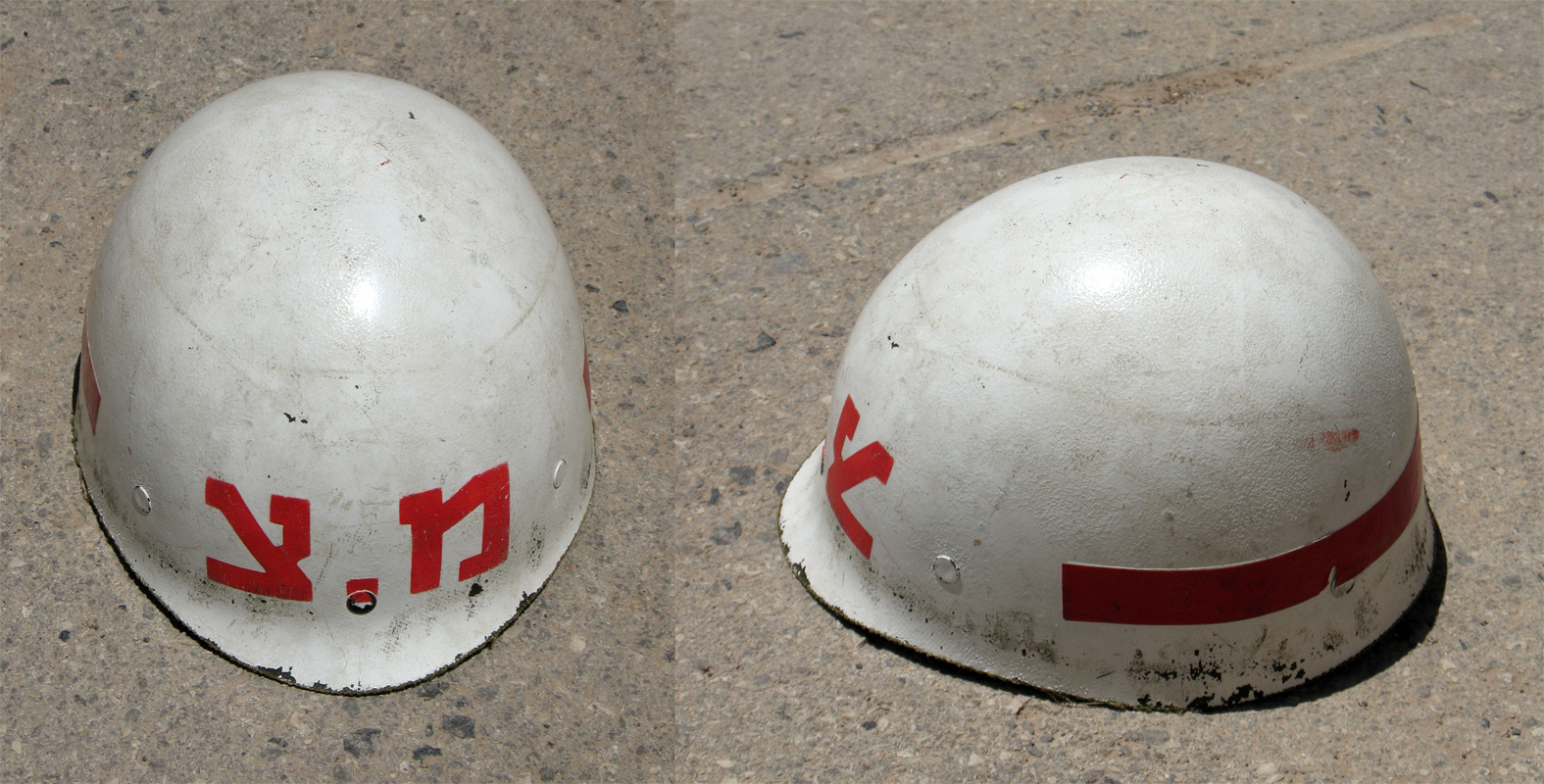 Helmet used by the Military Police Corps of the Israel Defense Forces before the modern combination cap came into use.